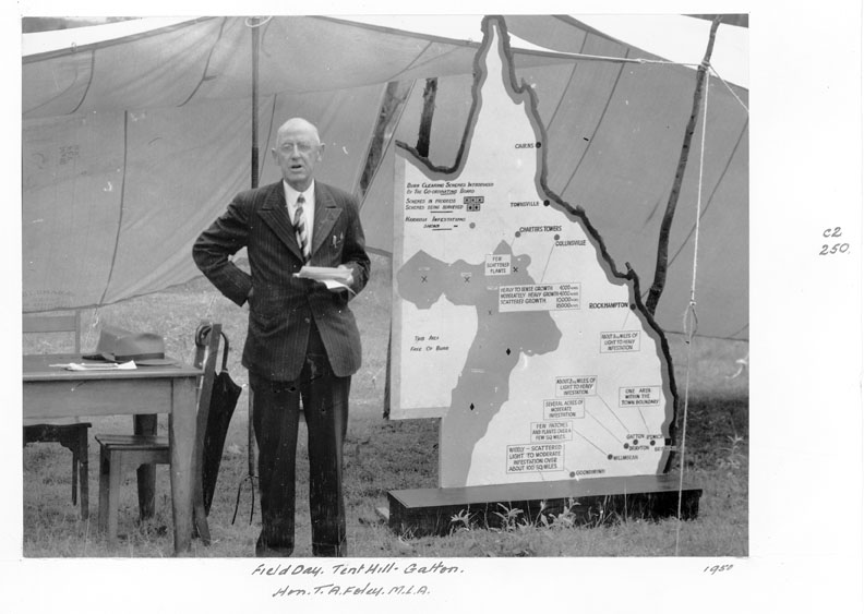 Hon TA Foley MLA at Field Day, Tent Hill, Gatton. (Item 435605, Register to the photographs, makes reference to the Lands Department.)